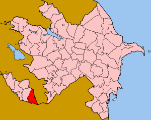 Map of Azerbaijan showing Ordubad rayon.